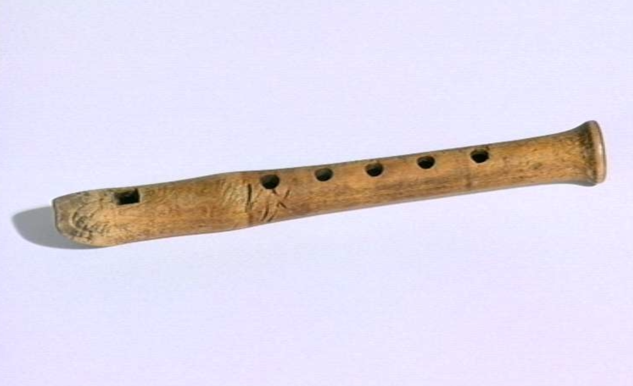 Folk flute (Tussefløyte) from Vestre Slidre, Oppland, Norway. Acquired by Norsk Folkemuseum in 1948 (NF.1948-0664).